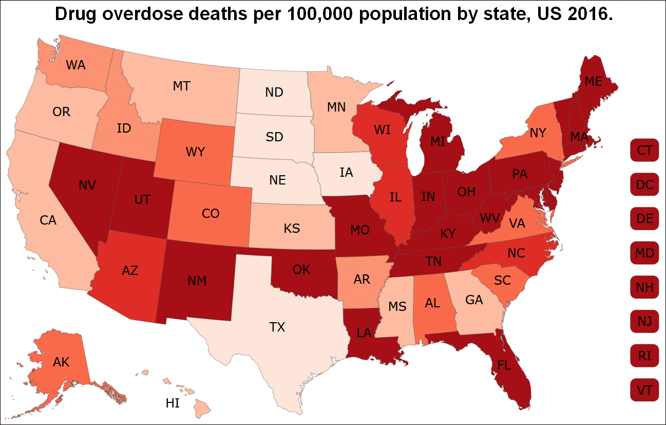 US map of drug overdose deaths per 100,000 population by state, US 2016. There were 64,070 overdose deaths in the USA in 2016 according to a table from the Centers for Disease Control and Prevention. From the source page for the map: "Opioids—prescription and illicit—are the main driver of drug overdose deaths. Opioids were involved in 42,249 deaths in 2016, and opioid overdose deaths were five times higher in 2016 than 1999. In 2016, the five states with the highest rates of death due to drug overdose were West Virginia (52.0 per 100,000), Ohio (39.1 per 100,000), New Hampshire (39.0 per 100,000), Pennsylvania (37.9 per 100,000) and Kentucky (33.5 per 100,000)." Another source for the 42,249 number of opioid deaths: Timeline bar chart with 2016 number of deaths in the US from opioids. Originally at Overdose Death Rates. By National Institute on Drug Abuse (NIDA)